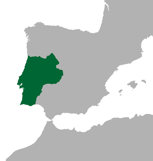 This map shows the Lusitania´s territory in the Roman Empire.